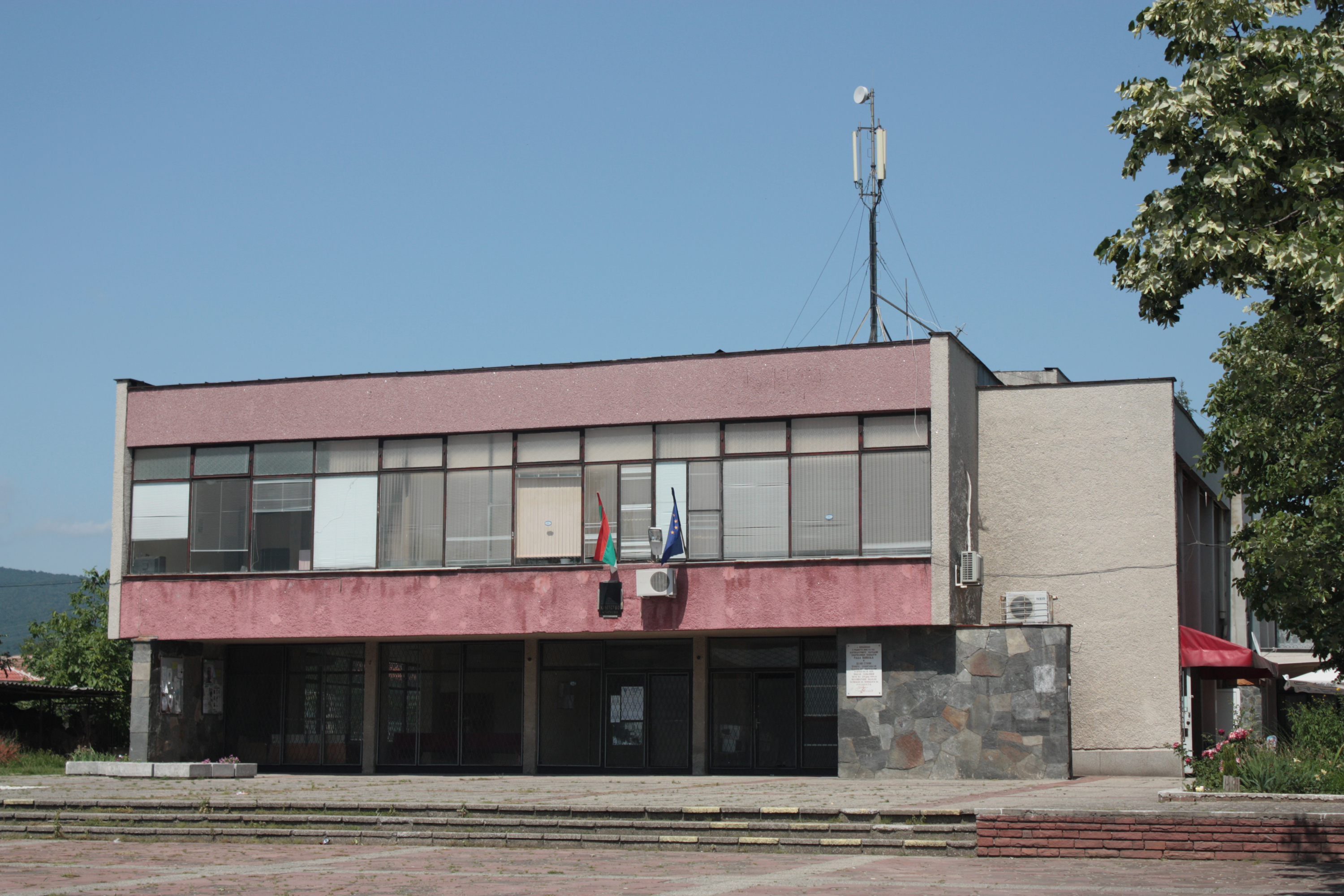 Municipality office Krasnovo, Bulgaria